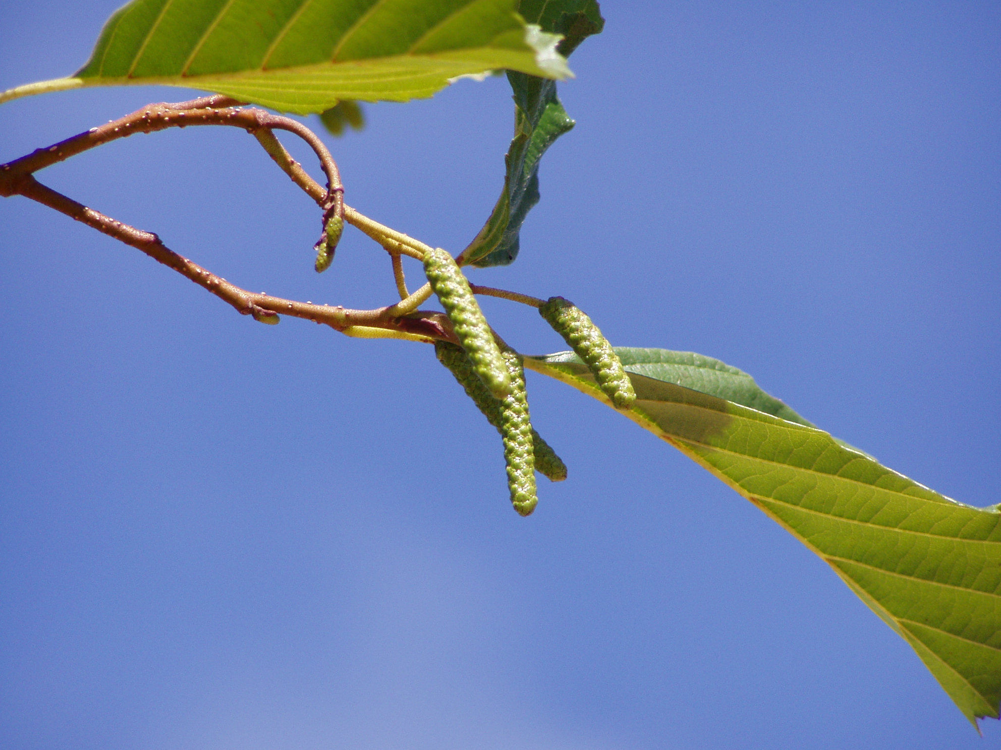 European Black Alder